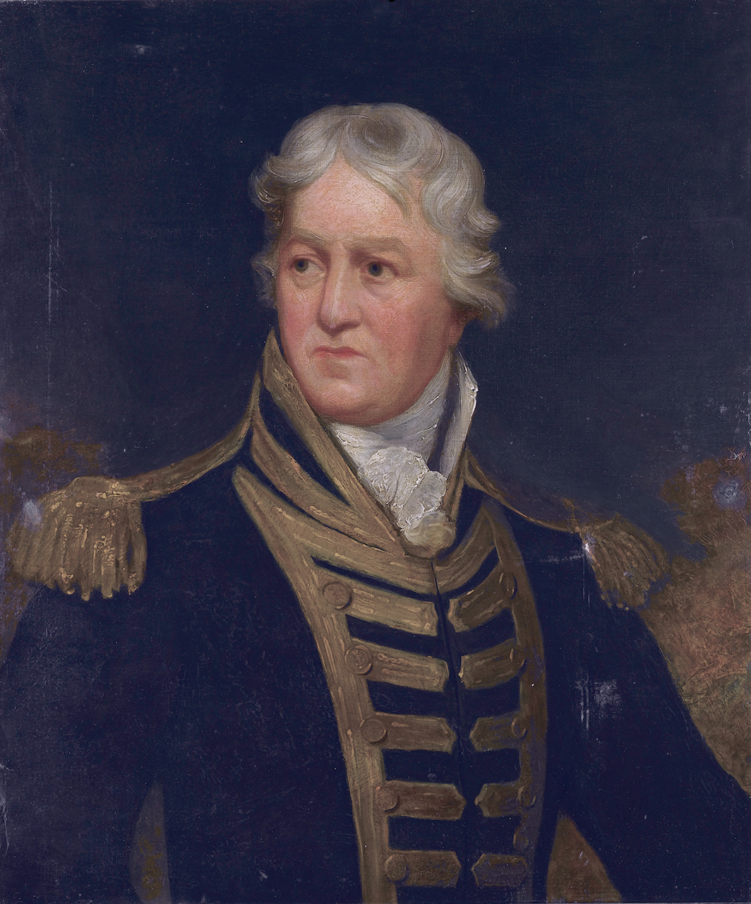 Admiral Charles Middleton, later Lord Barham (1726-1813)